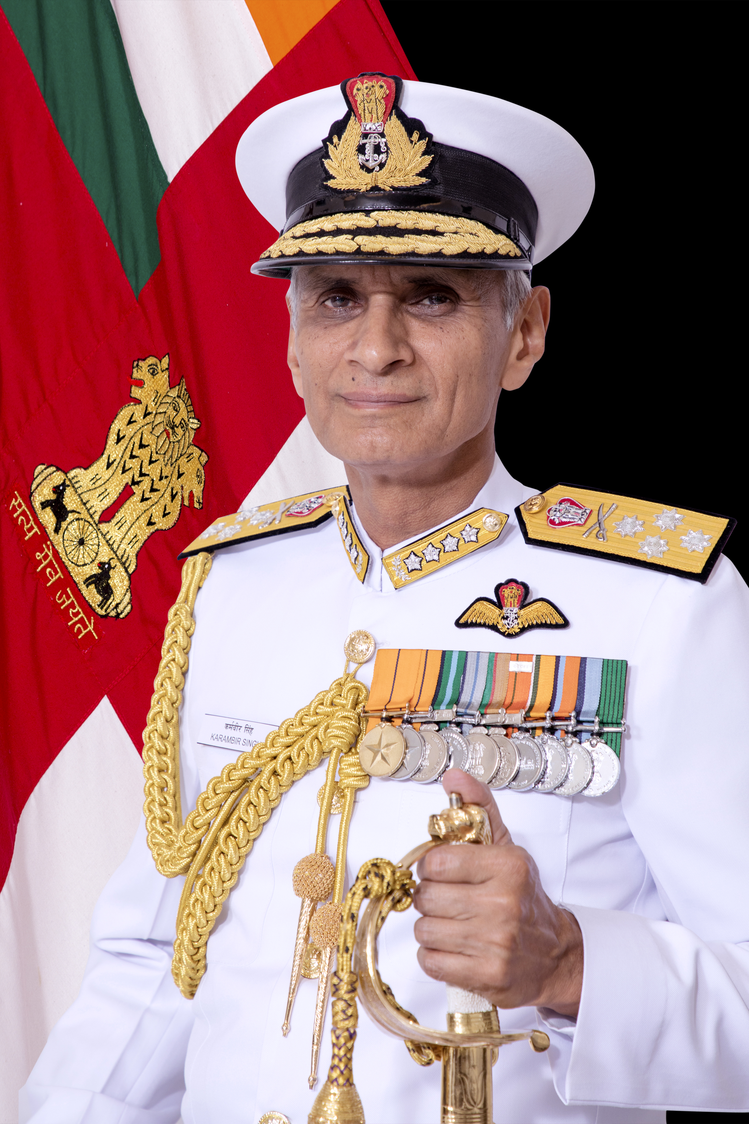 Admiral Karambir Singh, PVSM, AVSM, ADC: Admiral Karambir Singh assumed command of the Indian Navy on 31 May 2019 as the 24th Chief of the Naval Staff.